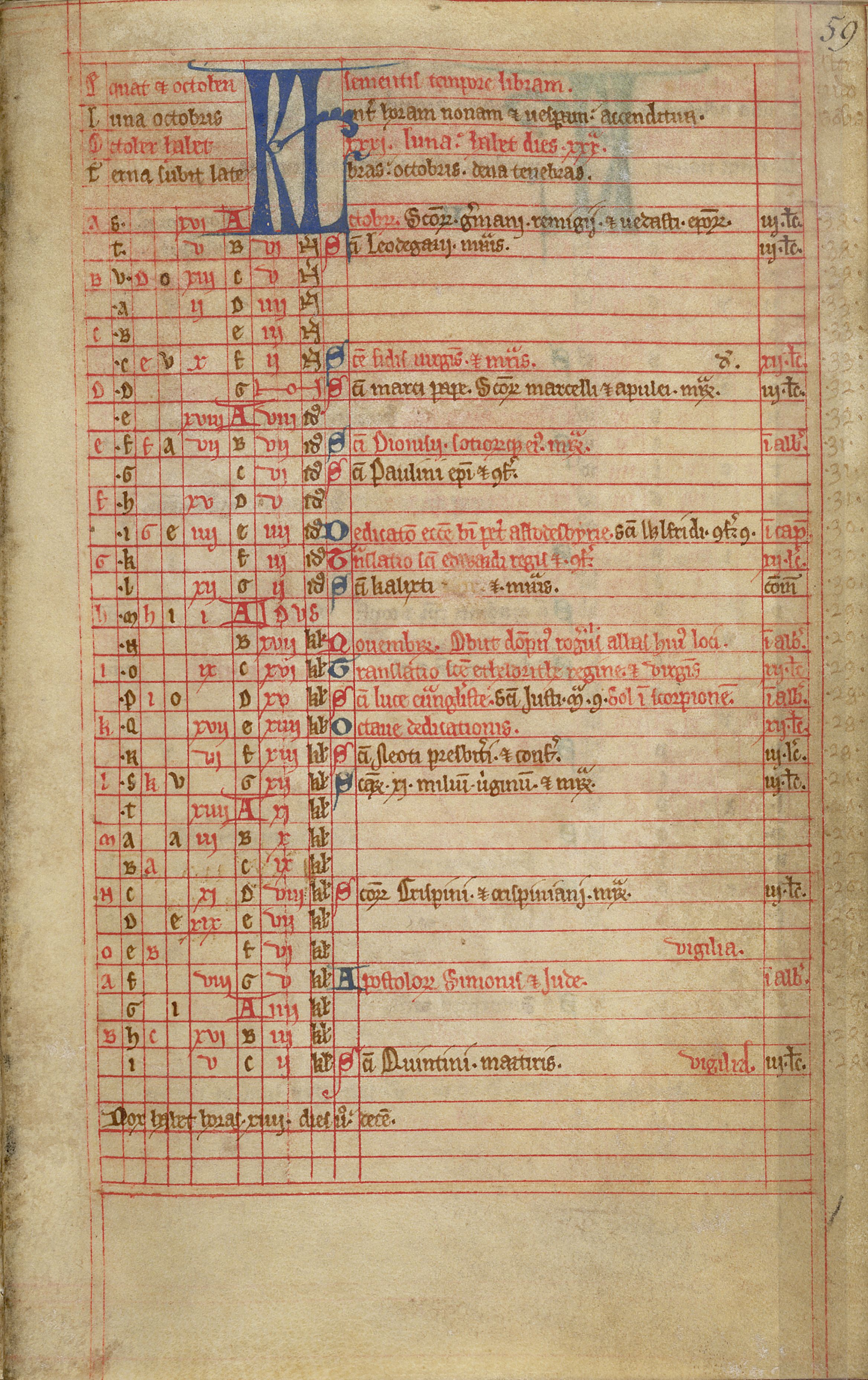 The month of October from a liturgical calendar for Abbotsbury Abbey found in a 13th century manuscript of a collection of treatises on chess